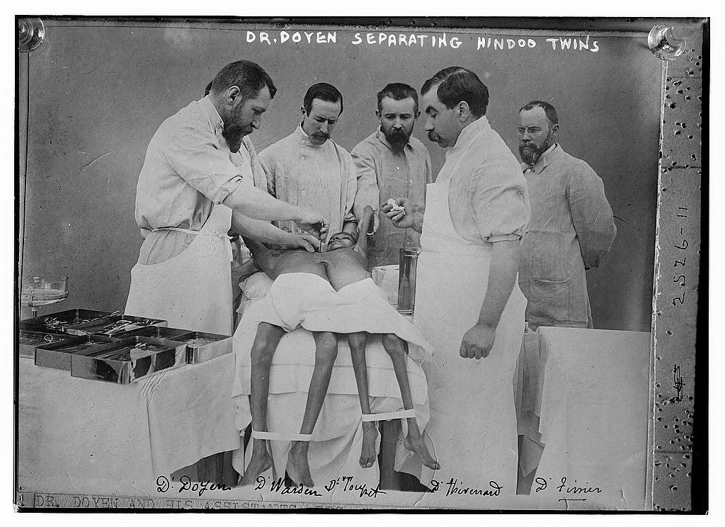 Bain News Service,, publisher. Dr. Doyen separating Hindoo twins [between 1910 and 1915] 1 negative : glass ; 5 x 7 in. or smaller. Notes: Title from unverified data provided by the Bain News Service on the negatives or caption cards. Forms part of: George Grantham Bain Collection (Library of Congress). Format: Glass negatives. Repository: Library of Congress, Prints and Photographs Division, Washington, D.C. 20540 USA, General information about the Bain Collection is available at Persistent URL: Call Number: LC-B2- 2526-11